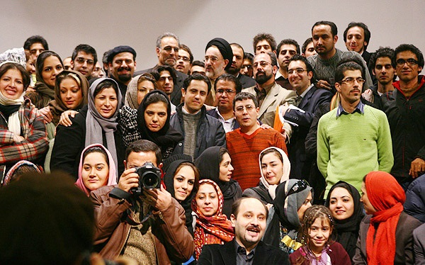 Annual celebration of the Chelcharagh magazine (4 8610030051 L600) for more in Persian